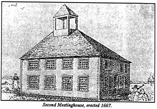 The Second Meetinghouse at York, Maine